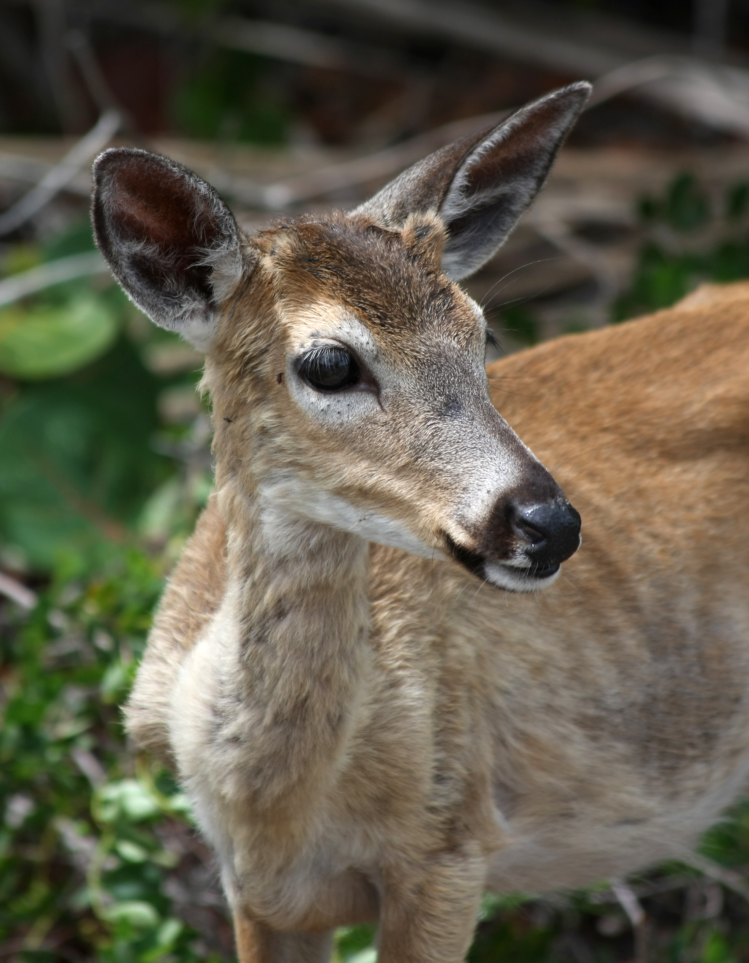 Portrait of a male Key deer, a subspecies only found on some of the Florida Keys. We can see that the horns are begining to grow.